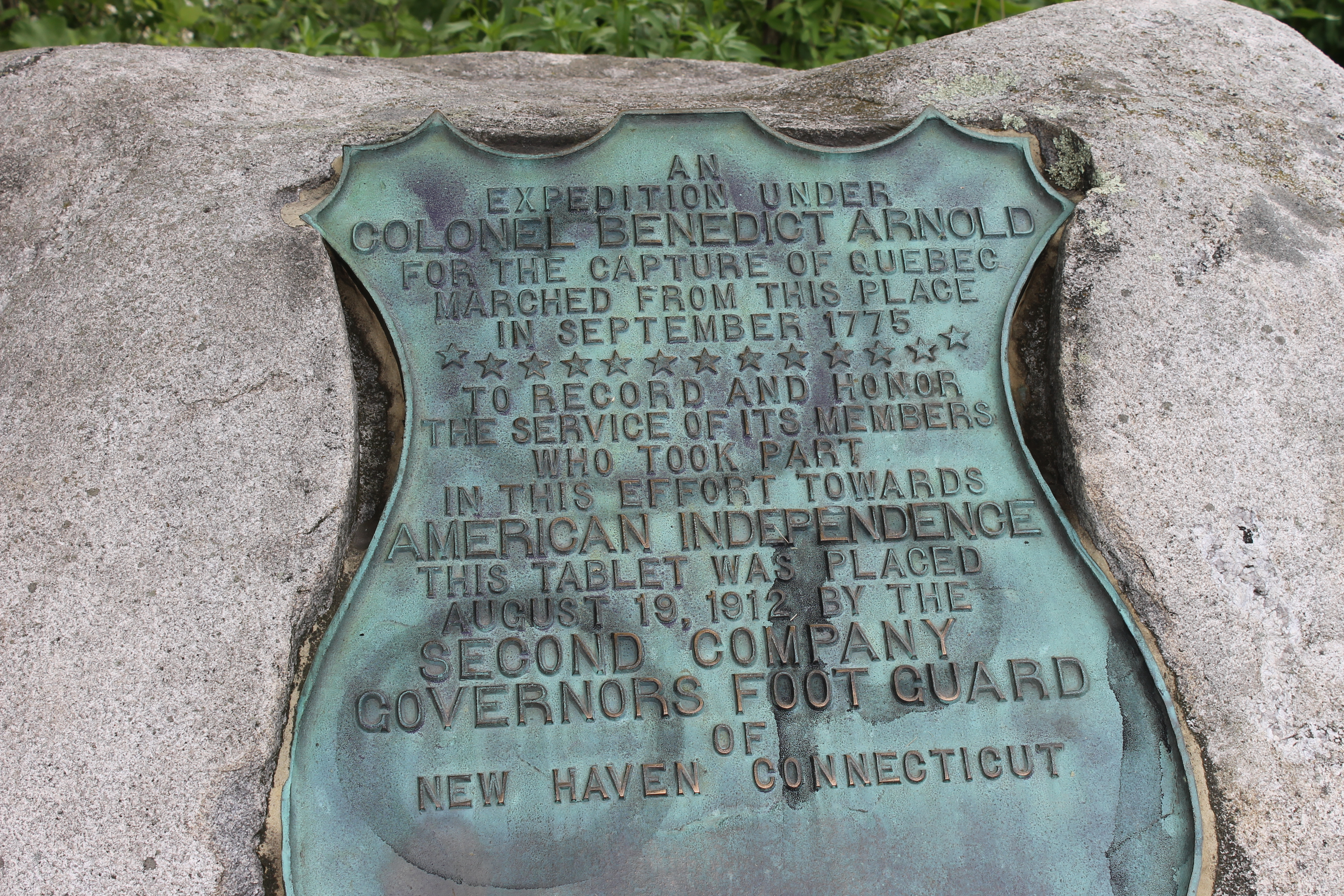 I took photo of Benedict Arnold historical marker at Fort Western in Augusta, ME, with Canon camera.